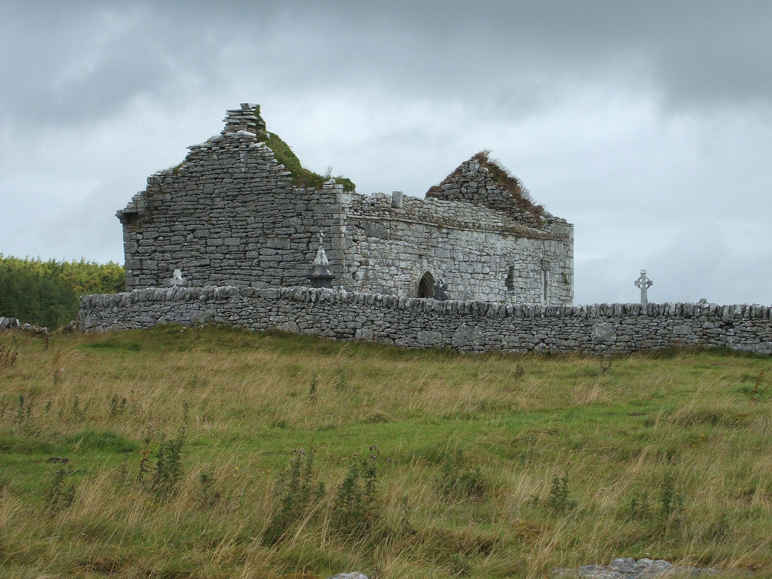 Ruins of a 12th century church within the parish of Carran, Co. Clare, Ireland (R480)